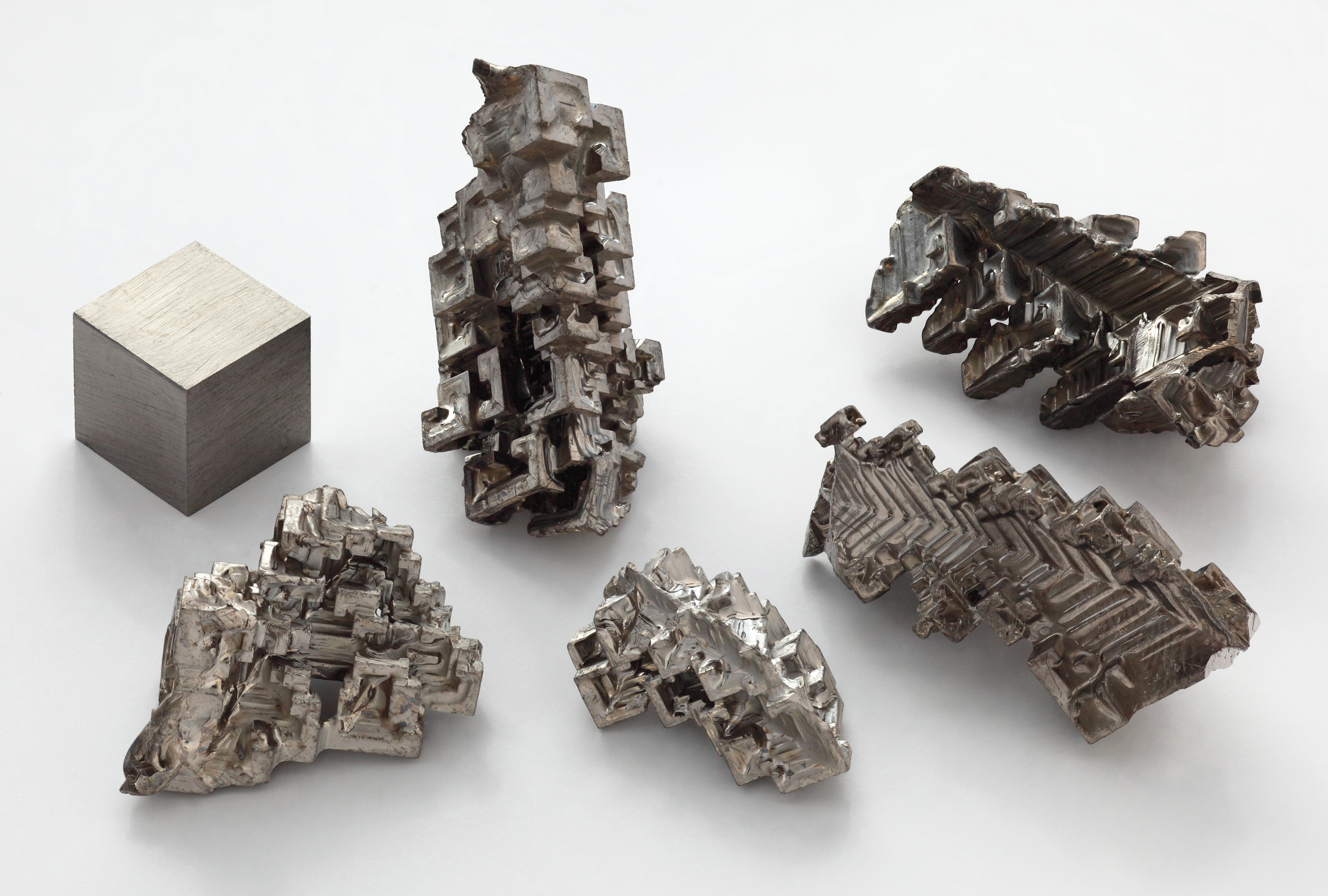 The chemical element bismuth as a synthetic made crystals. The surface is oxide free. Additional a high purity (99.99 %) 1 cm3 bismuth cube for comparison.